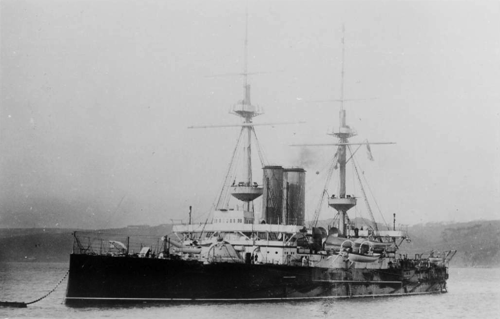 HMS Ocean (Canopus-class battleship).